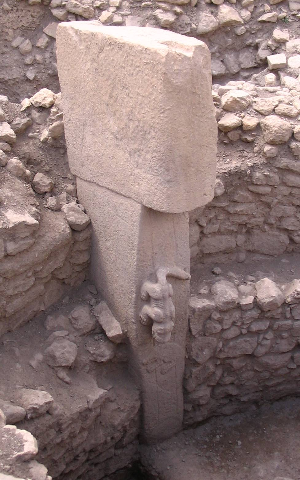 The sculpture of an animal (Fox? Wolverine ? today the second one is a boreal mammal, but 12.000 years ago ?) at Göbekli Tepe, close to Sanliurfa. The photo was taken during a visit to Gobekli Tepe in 2008. Cropped the image a bit to focus on the interesting pillar. To the best of my knowledge it was one of the recent finds from Prof. Schmidt's group, when the photo was taken. Decided to put it online after it appeared also in a BBC documentary.